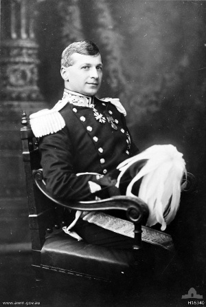 Portrait of The Honourable Sir Arthur Lyulph Stanley KCMG when he was the Governor of Victoria in 1915.